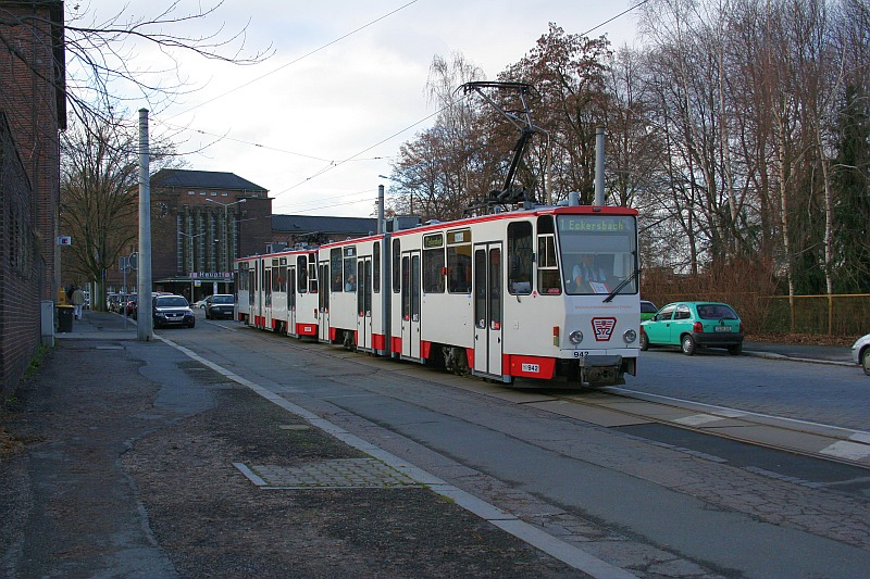 Tatra Tram near the central station in Zwickau, Saxony, Germany.